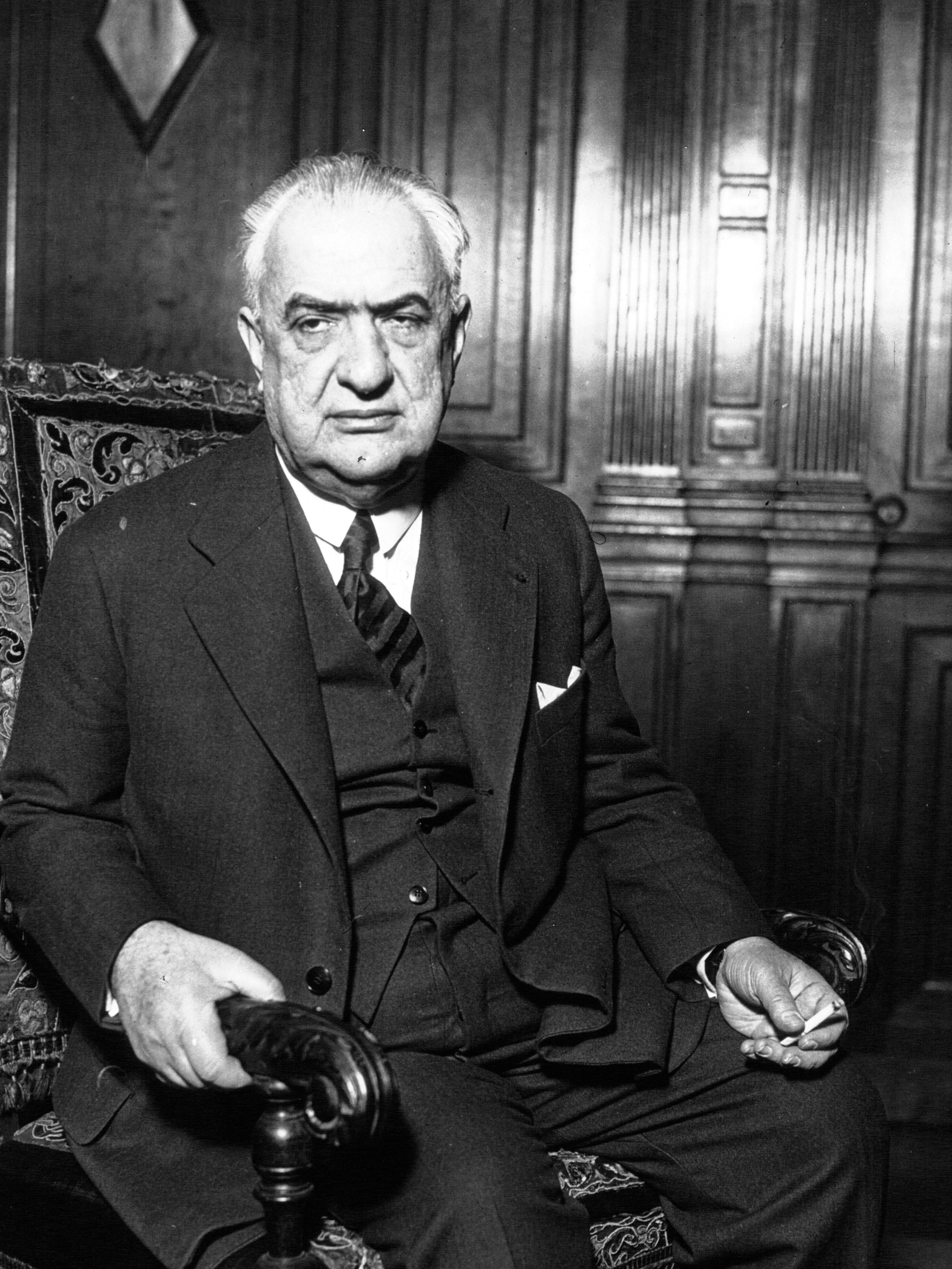 Constantin Argetoianu (Argetoiano), Romania's Finance Minister.